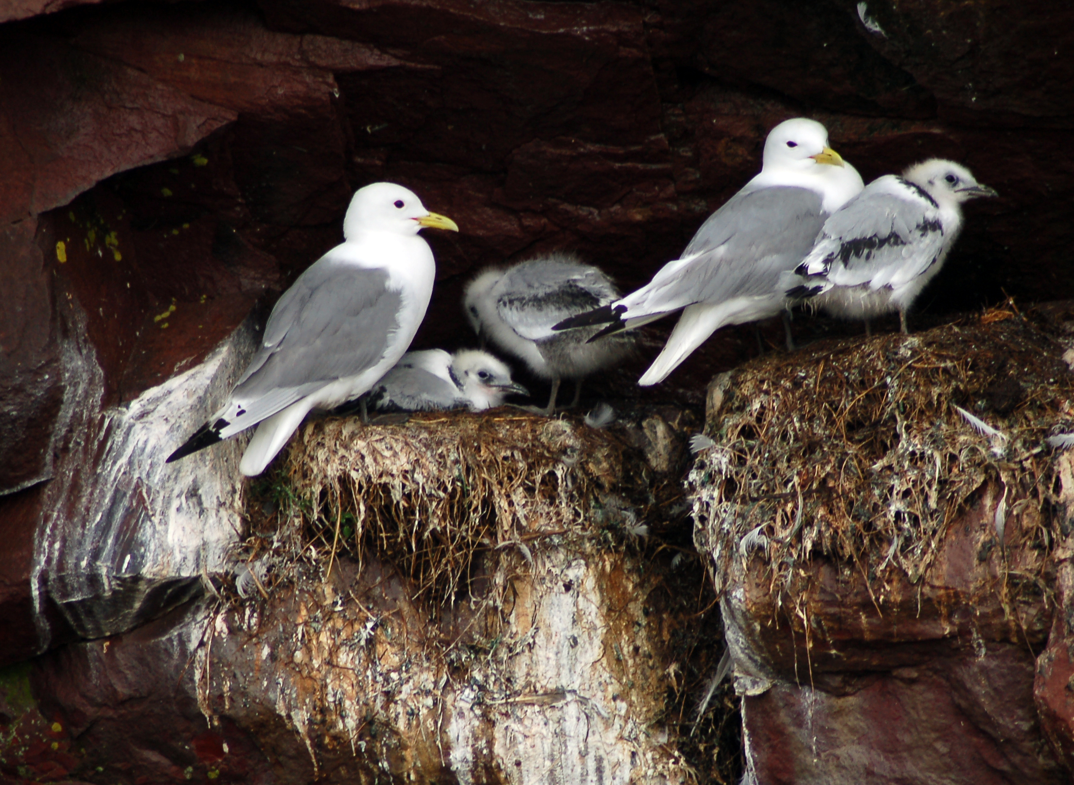 2 adult and 3 young Black-legged Kittiwakes (Rissa tridactyla) on their nests in the cliffs of Gull Island in the Witless Bay Ecological Reserve, Newfoundland.